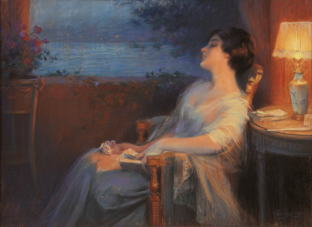 The Murmur of the Sea Oil on Canvas 21 1⁄4 x 28 1⁄2 Inches Framed- 35 x 44 Inches signed lower right